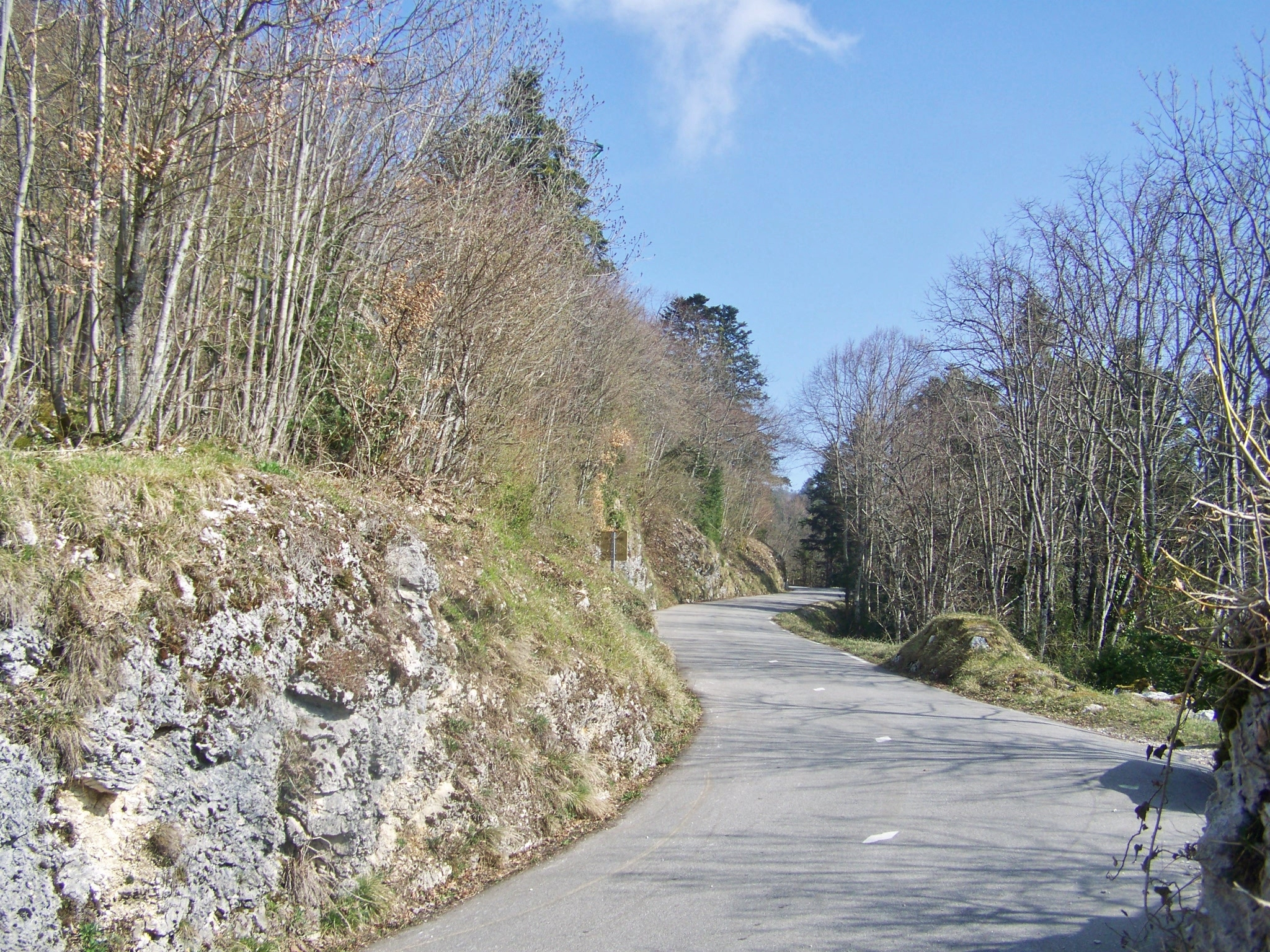 Sight of French RD 916 road, going to Chambéry through the col de l'Épine pass, here on the western side of the chaîne de l'Épine mount, in Savoie.